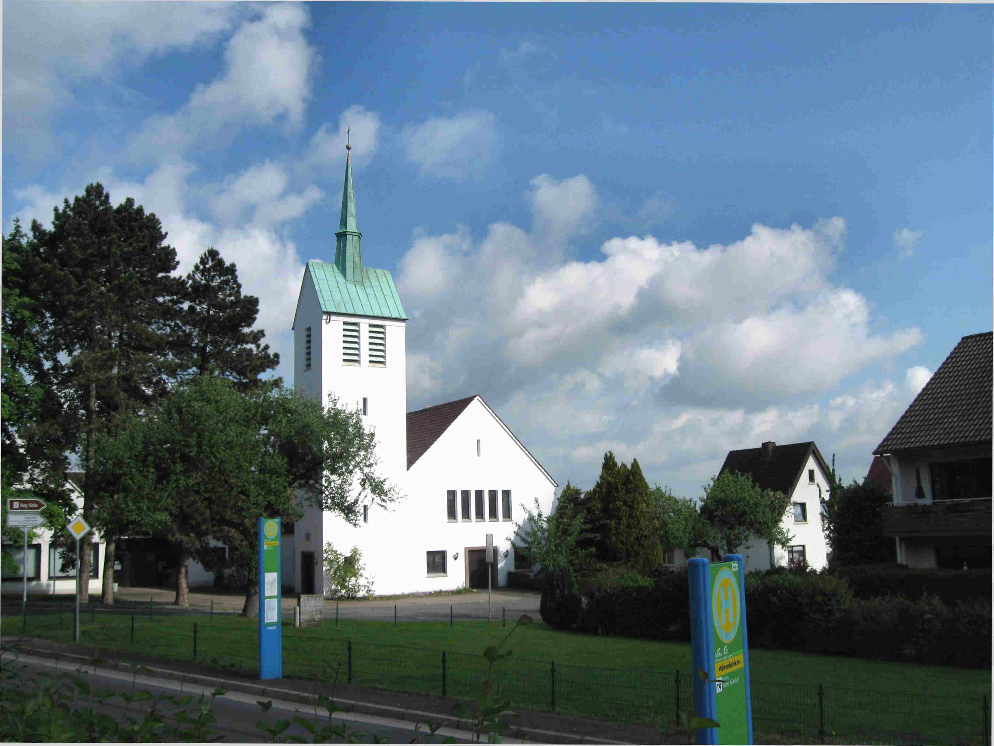 Evangelical Lutheran Church in the parish Bonneberg Vlotho